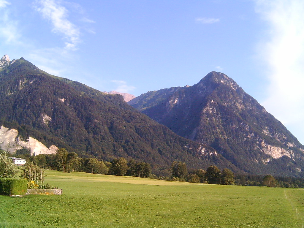 Lawenatobel seen from Triesen